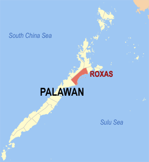 Map of Palawan showing the location of Roxas